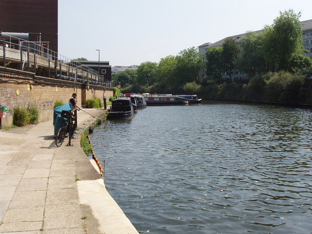 Regent's Canal Towpath by Lisson Grove A ramp comes down from Lisson Grove to this towpath, but cycling is not allowed on this section. The first cycle access east of Maida Hill Tunnel is by wheeling across a footbridge from Casey Close in Lisson Green Estate. There is a walkway south of the canal from Lisson Grove to that footbridge.